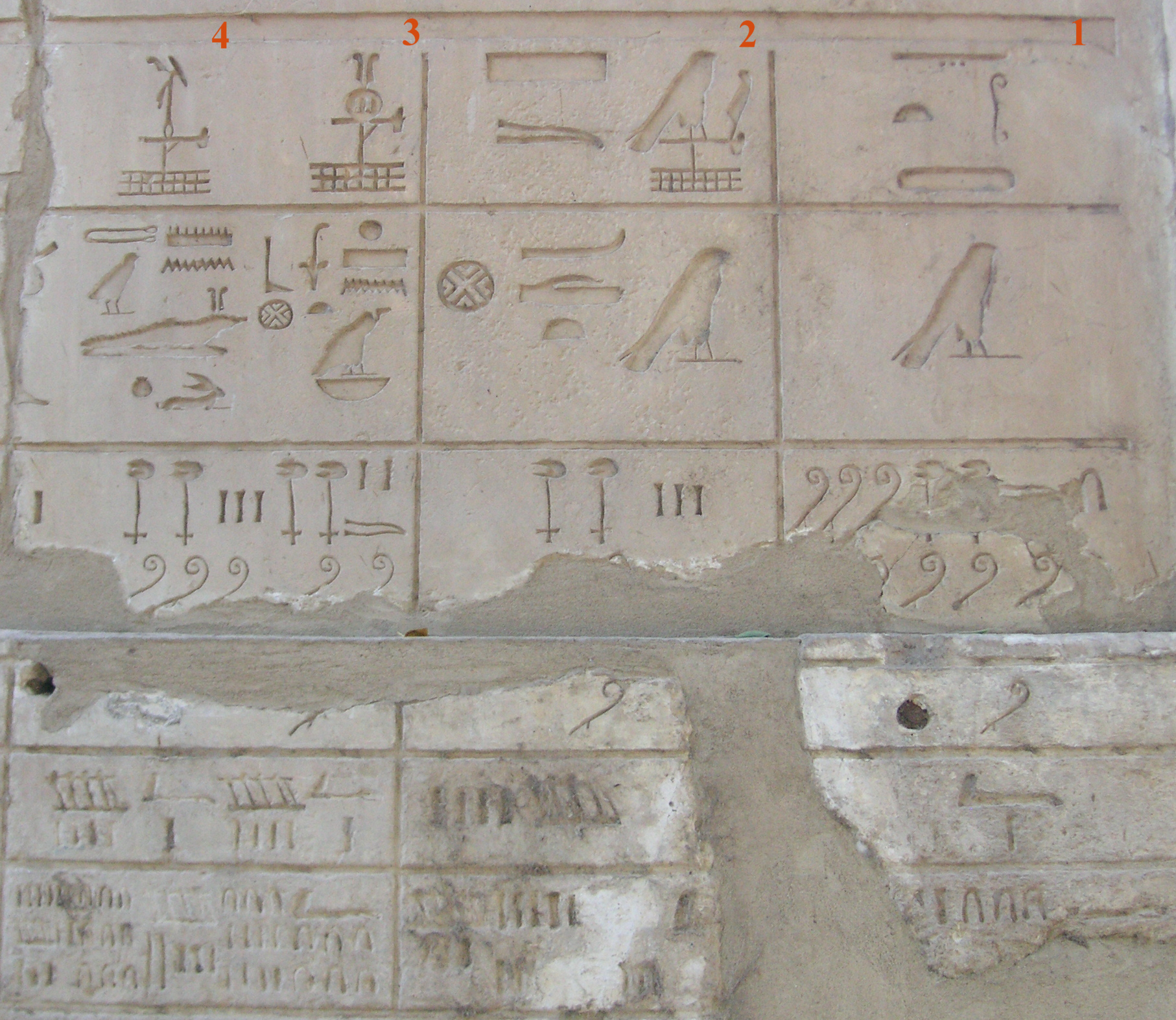 Nome 1 to 4 of Upper Egypt (list of Sesostris I.)